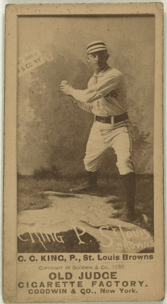 Title: Silver King, St. Louis Browns, baseball card portrait Abstract/medium: 1 photographic print : albumen.